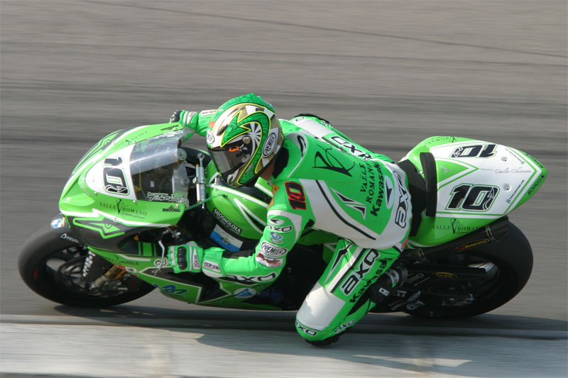 Fonsi Nieto at WK superbike 2007 Assen